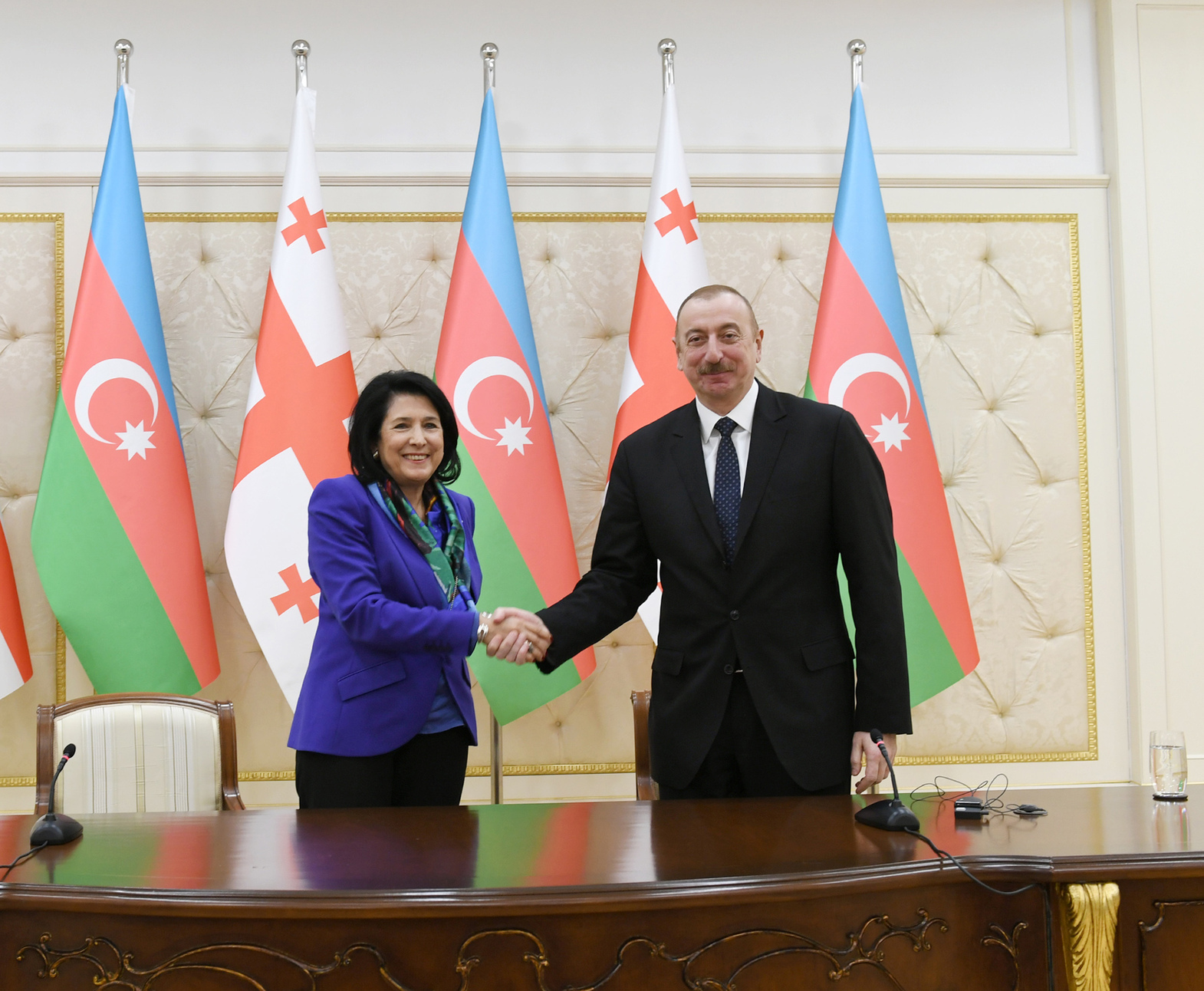 Presidents of Azerbaijan and Georgia made statements for the press